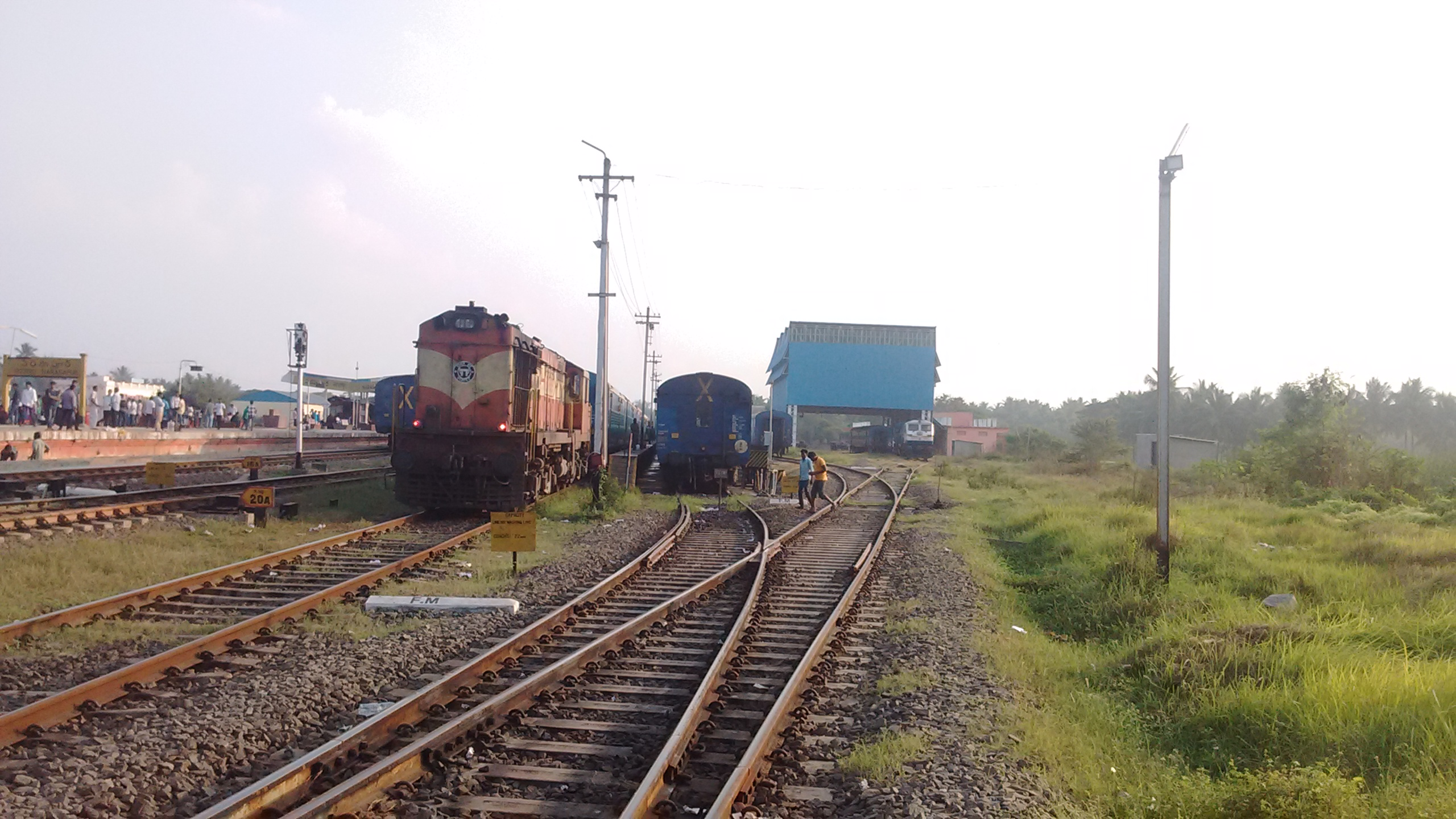 Narsapur Terminal in BZA division